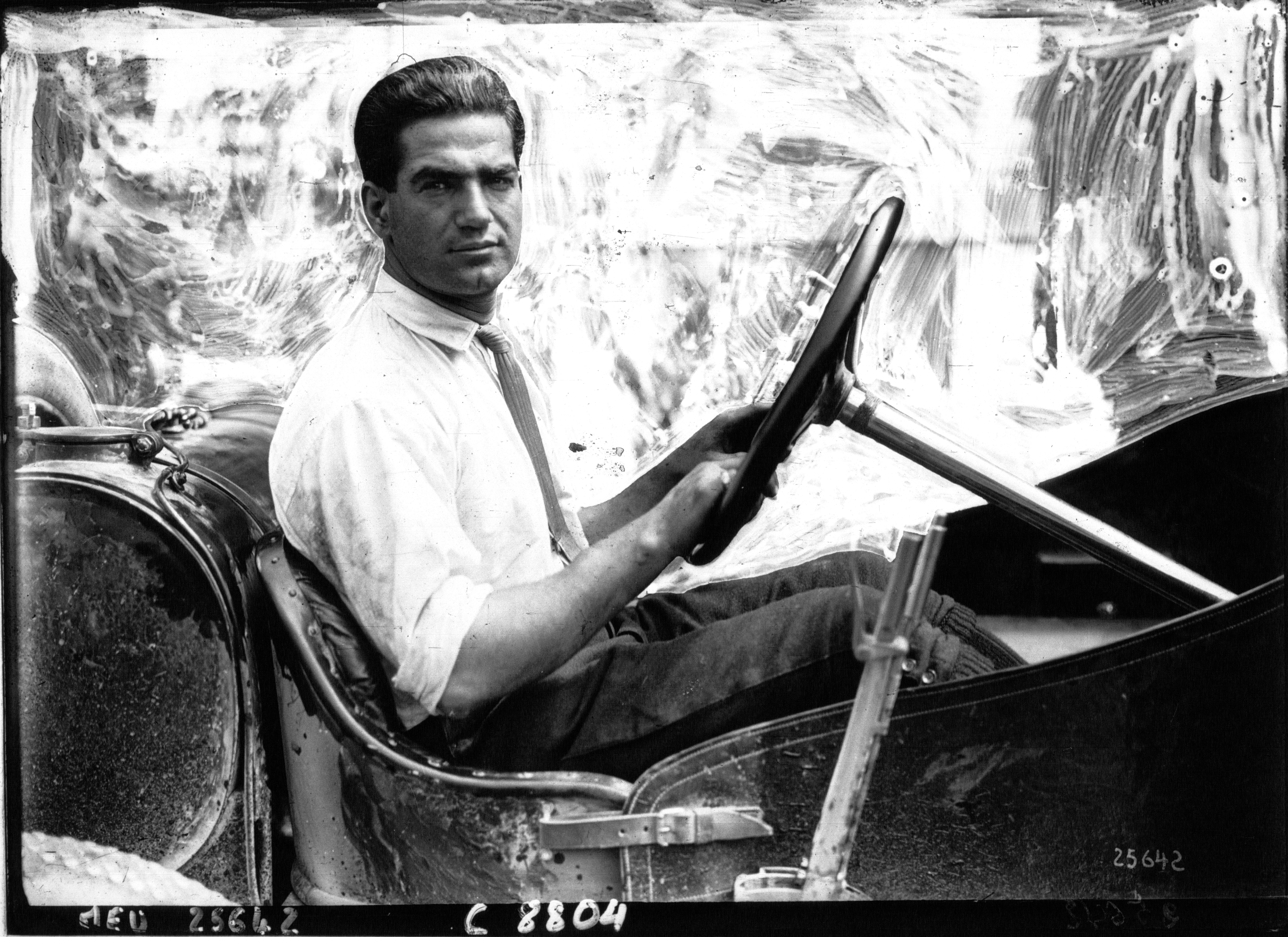 Ralph DePalma in his Fiat at the 1912 French Grand Prix at Dieppe.